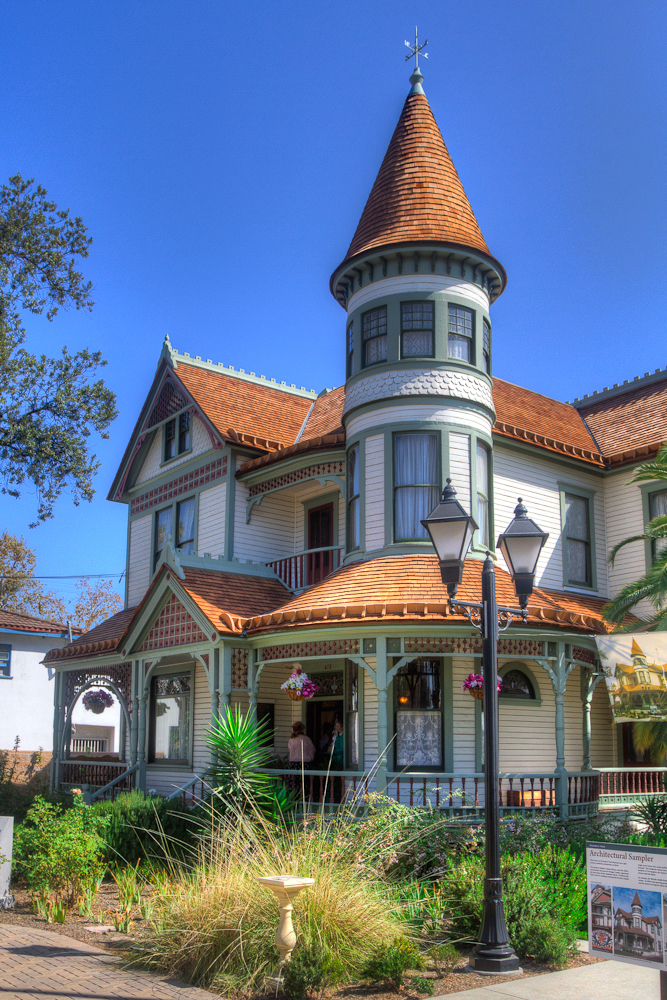 John Woelke House, 400B N. West St. Anaheim